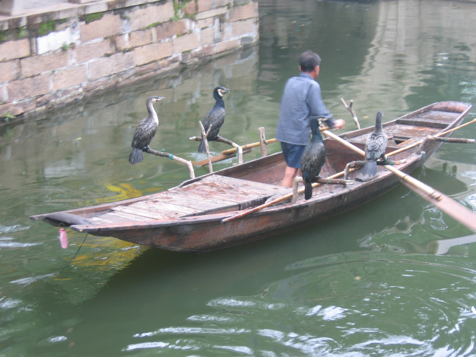 Cormorant fishing in Suzhou, China.